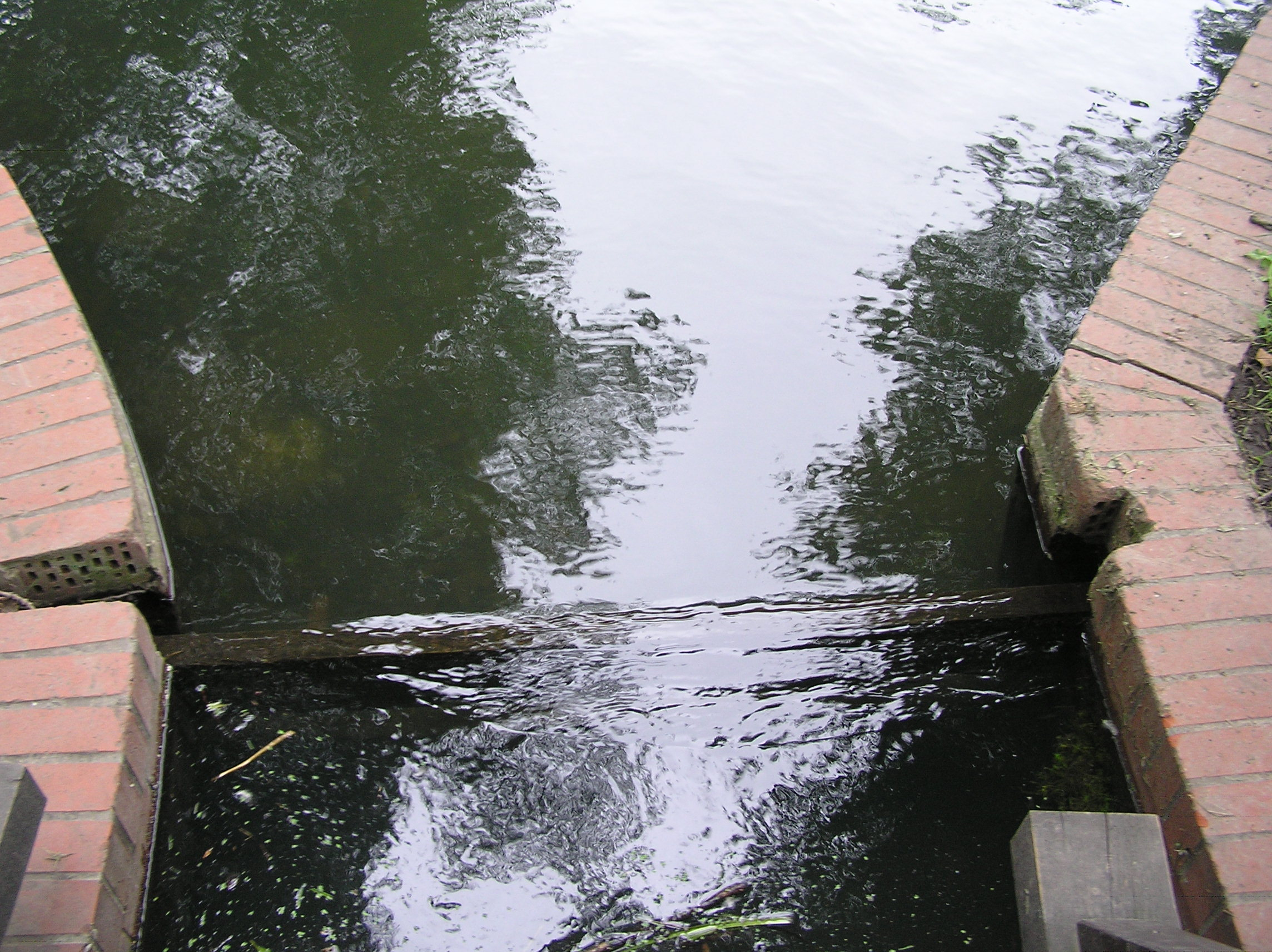 Poland, Wrocław, Brochowski Park, Brochówka River, pond in park